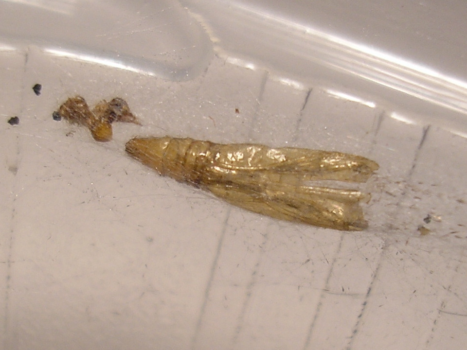 Indian Meal Moth (Plodia interpunctella) - empty puppa.Location: Ballans, 17160 (Charente-Maritime) FranceKeywords: pest, food, chocolate